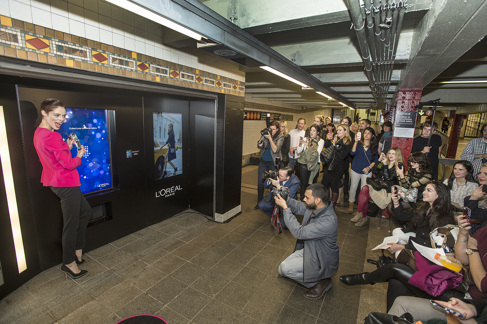 On October 30, 2013, L'Oreal Paris introduced an interactive kiosk into the New York City Subway station at 5 Av-Bryant Park. The kiosk uses a series of cameras to detect the colors in a user's outfit and picks out the most prominent and related color palettes, then recommends L’Oréal Paris products to match and allows a purchase. The MTA is watching this pilot project closely to determine whether similar "virtual retail" or "etailing" can be replicated and scaled up within the subway system. In this photo, model Coco Rocha demonstrates how to use the machine. Photo: Metropolitan Transportation Authority / Patrick Cashin.